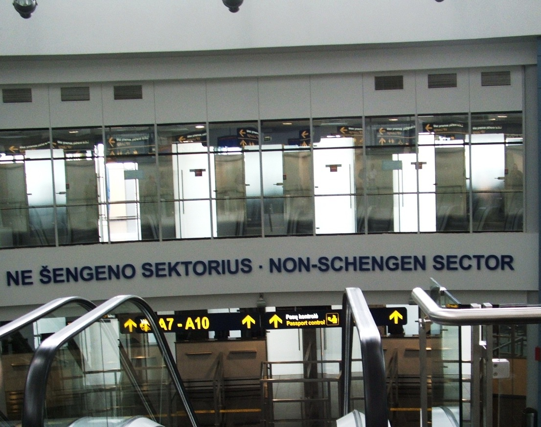 Non-Schengen sector at Vilnius airport